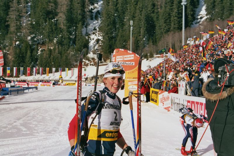 Sandrine Bailly, France